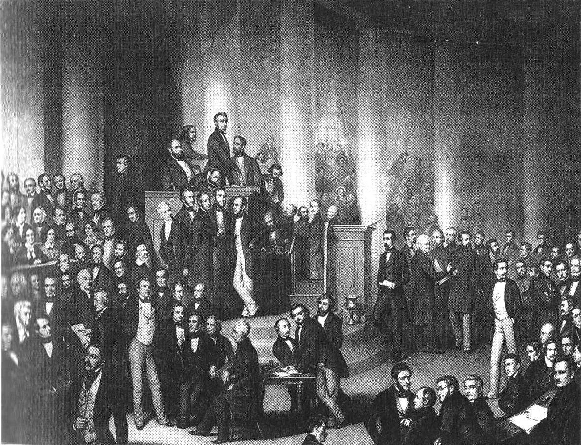 Discussion in the Frankfurt Parliament 1848/49